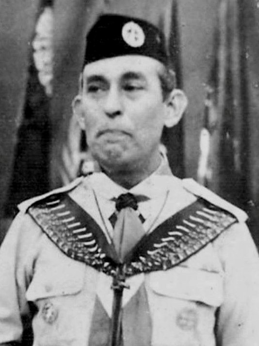 H. Mutahar was an Indonesian diplomat and music composer who is also founder of Paskibraka